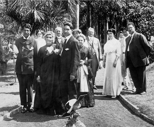 Liliʻuokalani with her hānai sons: Joseph Kaiponohea ʻAeʻa (left) and John Aimoku Dominis (right), and a group of people near the end of her life. Allen, Helena G. (1982) The Betrayal of Liliuokalani: Last Queen of Hawaii, 1838–1917, Glendale, CA: A. H. Clark Company, p. 378 ISBN: 978-0-87062-144-4. OCLC: 9576325.